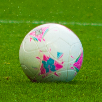 Adidas The Albert